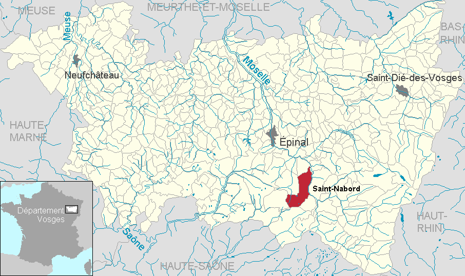 Saint-Nabord in the department of Vosges, Lorraine, France